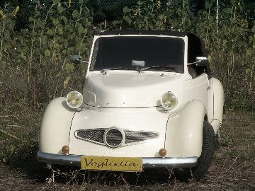 First functional prototype Voglietta kit-car.